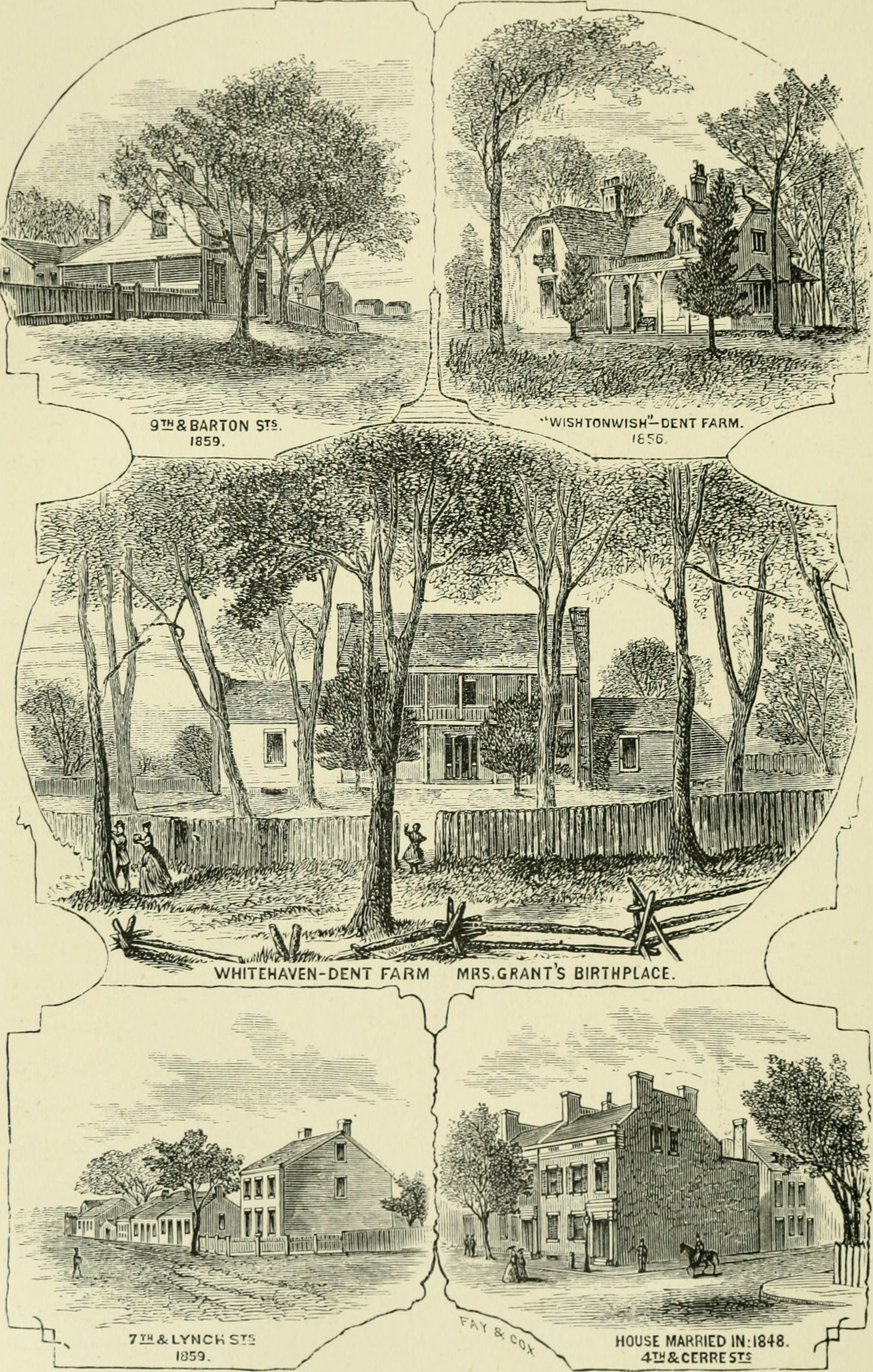 Title: A personal history of Ulysses S. Grant, and sketch of Schuyler Colfax Year: 1868 (1860s) Authors: Richardson, Albert D. (Albert Deane), 1833-1869 Subjects: Grant, Ulysses S. (Ulysses Simpson), 1822-1885 Colfax, Schuyler, 1823-1885 Publisher: Hartford, Conn., American Publishing Company San Francisco, Cal., R. J. Trumbull & Co. Text Appearing Before Image: ' Text Appearing After Image: CAPT. GRANTS RESIDENCE IN AND ABOUT ST. LOUIS. 1854.) Four Years Residence at Gravois. 151 CHAPTER XI. FARMER. The autumn of 1854 Captain Grant passed with theDents, then living on Walnut Street, St. Louis. Thecolonel, however, remained in charge of his farm and ne-groes at Gravois, where, before winter, his family and hisson-in-law joined him. Here Grant remained four years,residing alternately in Whitehaven, the old family man-sion, at Wishtonwish, a pleasant little cottage erected byhis brother-in-law Lewis Dent, and at Hardscrabble, a loghouse which he himself had built. The Whitehaven farmis cut in twain by Gravois (rocky bed) Creek, from whichthe neighborhood takes its name. The long, low, spacioushomestead, with its great stone chimneys at either end, itswide and hospitable porch, its whitewashed negro-quartersin the rear, and its barns of logs and stone, looks out fromamong tall locust and spruce trees upon broad, green mead-ows, sunny orchards, and sober woods. Three-quarters